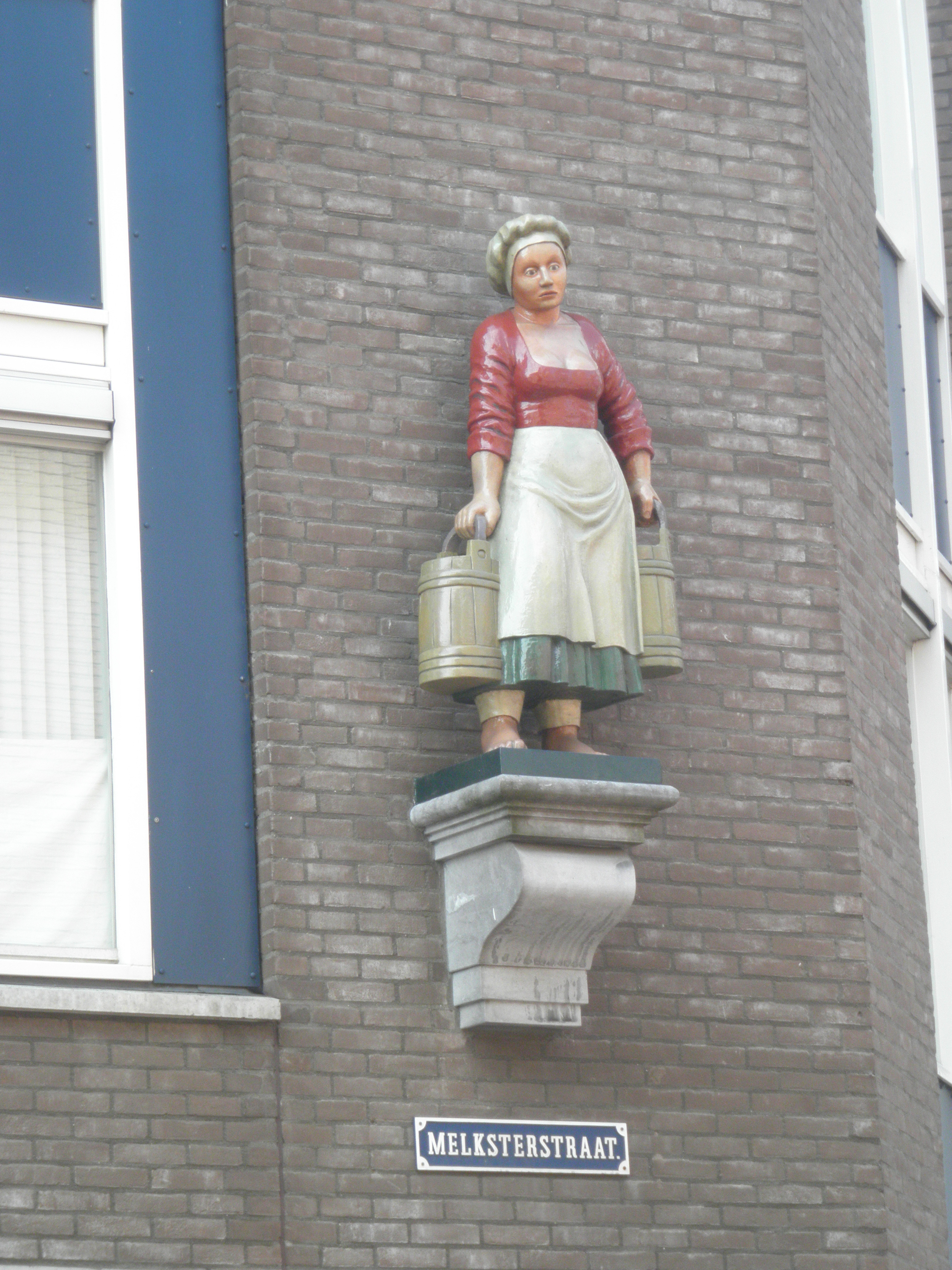 Melkster ('Milk-maid'), statue by Ela Venbroek near the corner of the Melksterstraat and the Polstraat streets in Deventer, the Netherlands